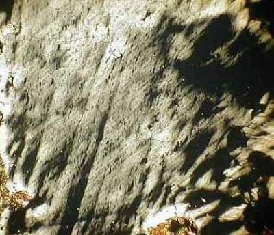 Impact feature: Shock metamorphism in the Rubielos de la Cérida impact structure - diaplectic glass and three sets of planar deformation features (PDF) in quartz. Thin section micrograph {field is 280 µm wide}.